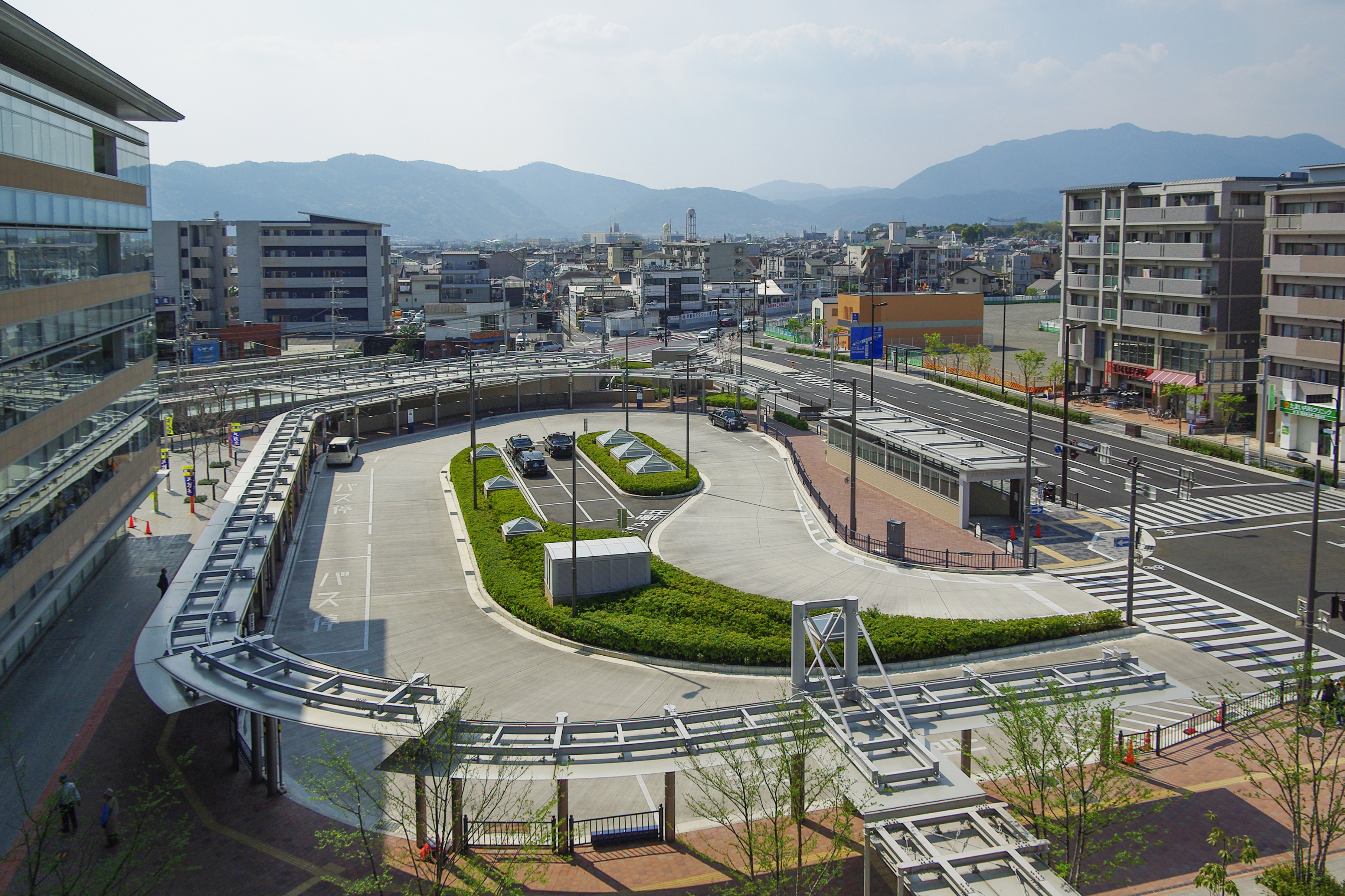 Photograph of the station square of Uzumasa-Tenjingawa Station, next to Sansa Ukyo, in Ukyo-ku, Kyoto, Kyoto Prefecture, Japan.